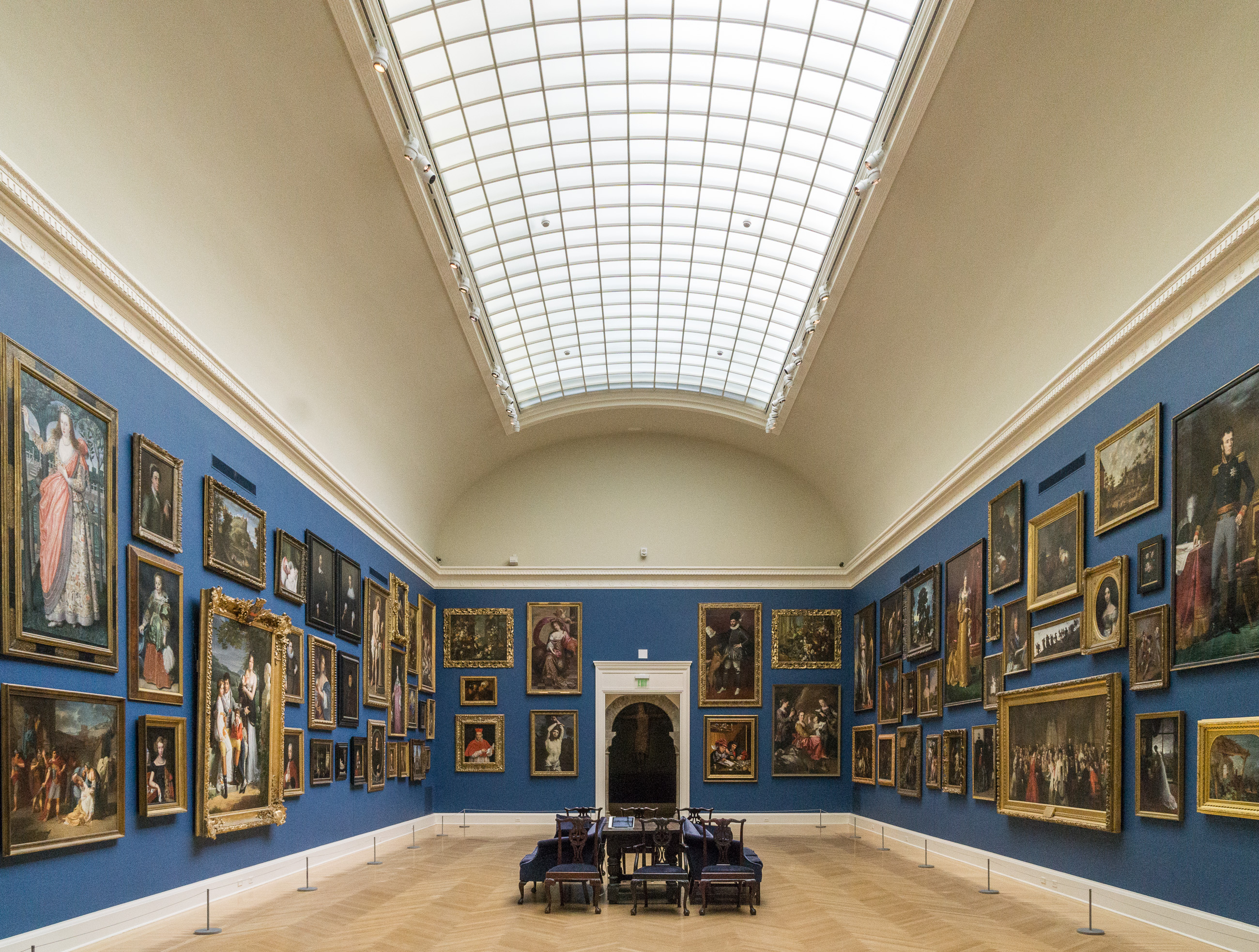 RISD Museum of art interior